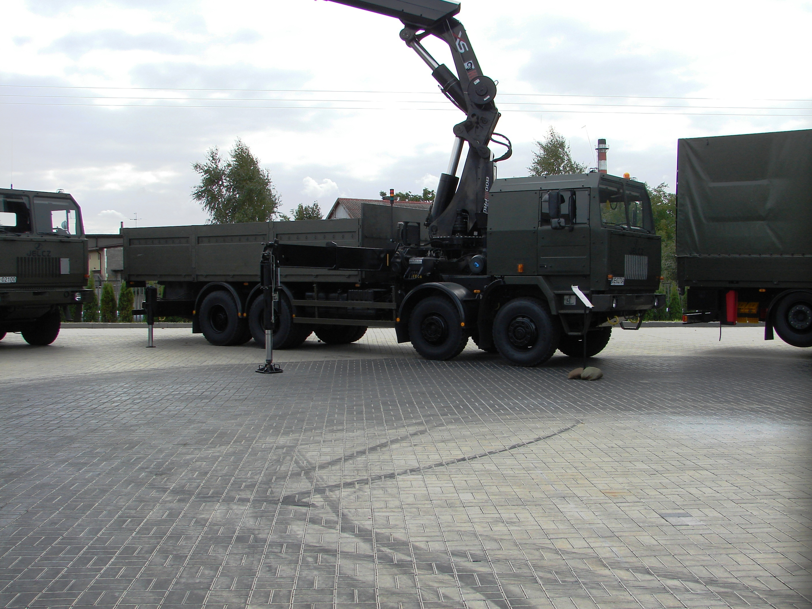 Jelcz S862 z żurawiem Hiab